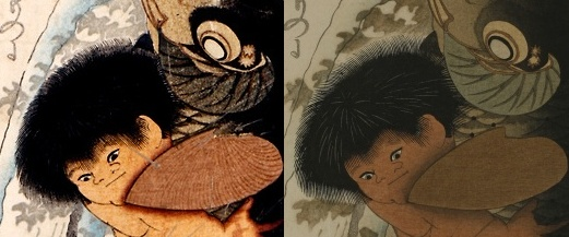 detail of a surimono by Hokkei, Kintarō wrestling with a giant carp, left original, right a-surimono, c. 1820